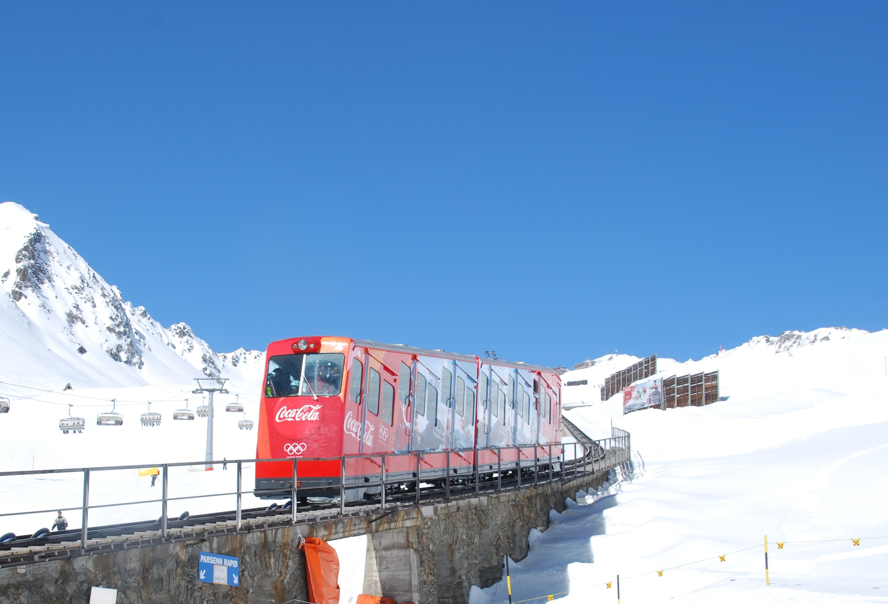 Parsennbahn, Upper Section, Davos, Switzerland